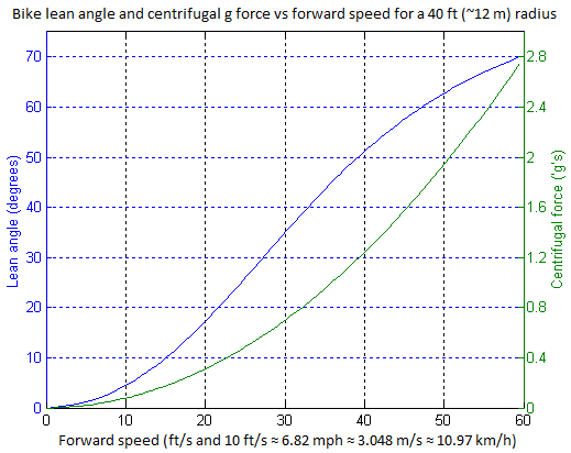 Graph of bike lean angle and centrifugal force vs forward speed